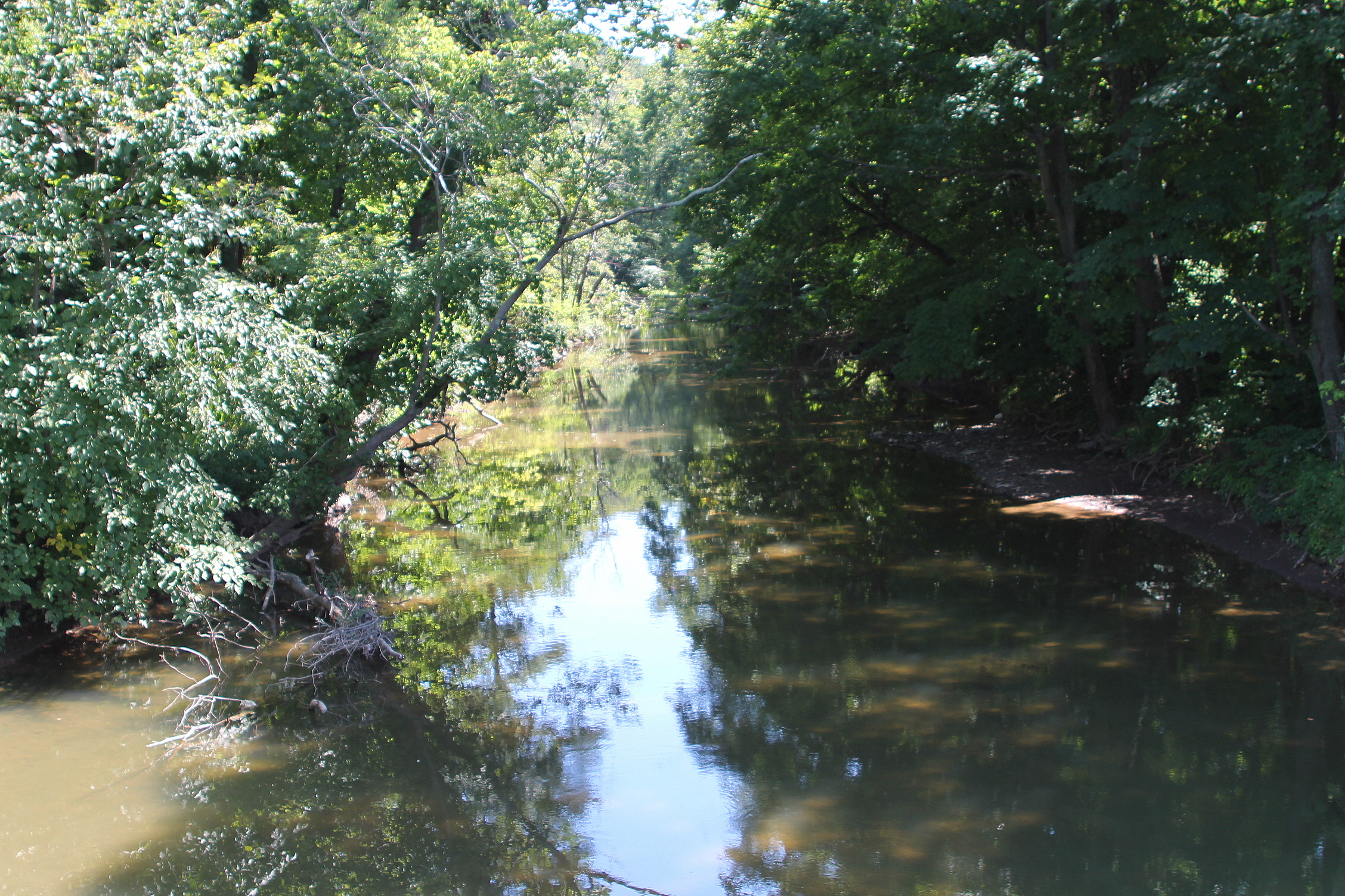 Schwaben Creek, a tributary of Mahanoy Creek, looking upstream